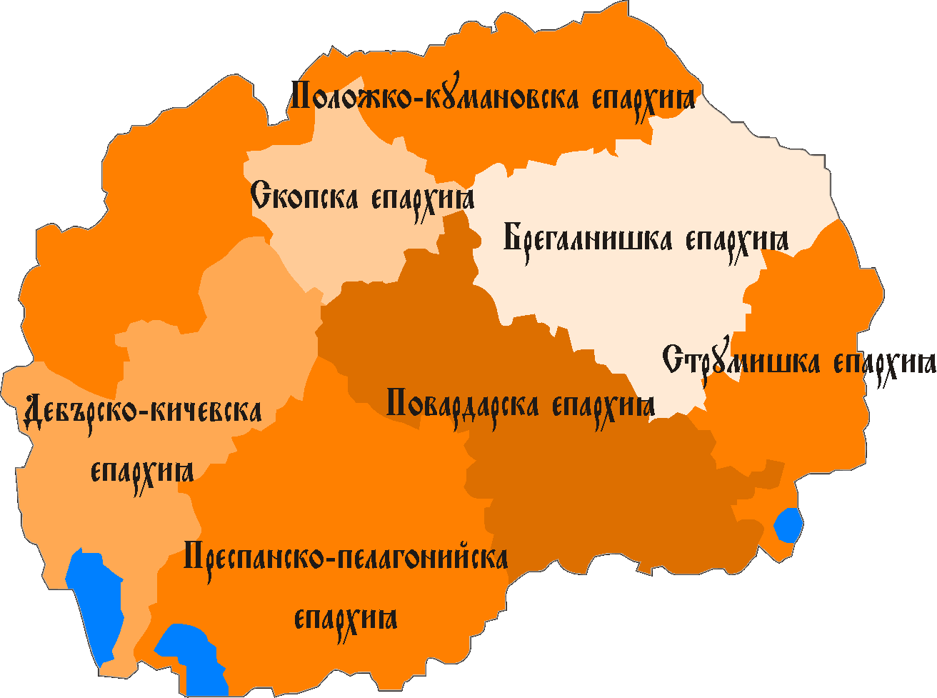 Dioceses of Macedonian Orthodox Church